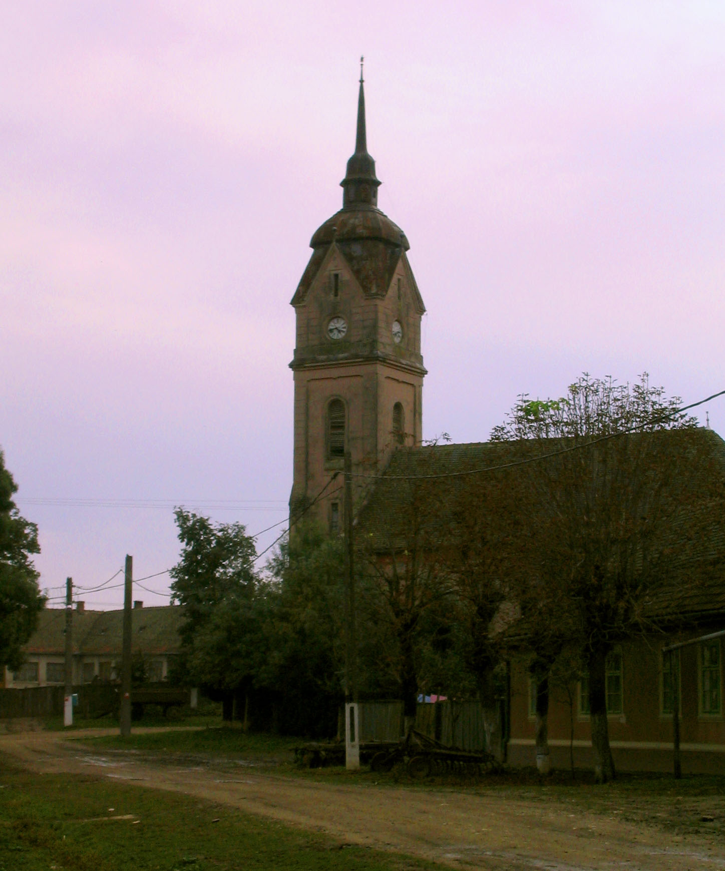 Calvinist Reformed Church in Clopodia/Klopodia, Romania